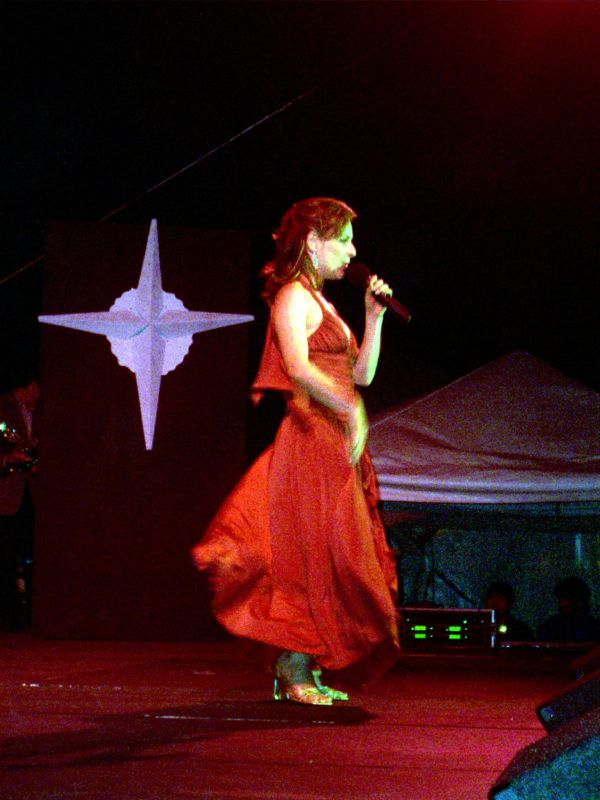 Rachael Beck, of Hey Dad and numerous stage shows, including Belle from Beauty and the Beast.